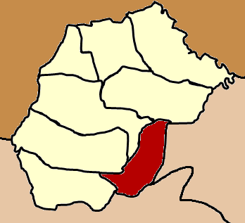 Locator map of Mae Sai with Ban Dai highlighted.